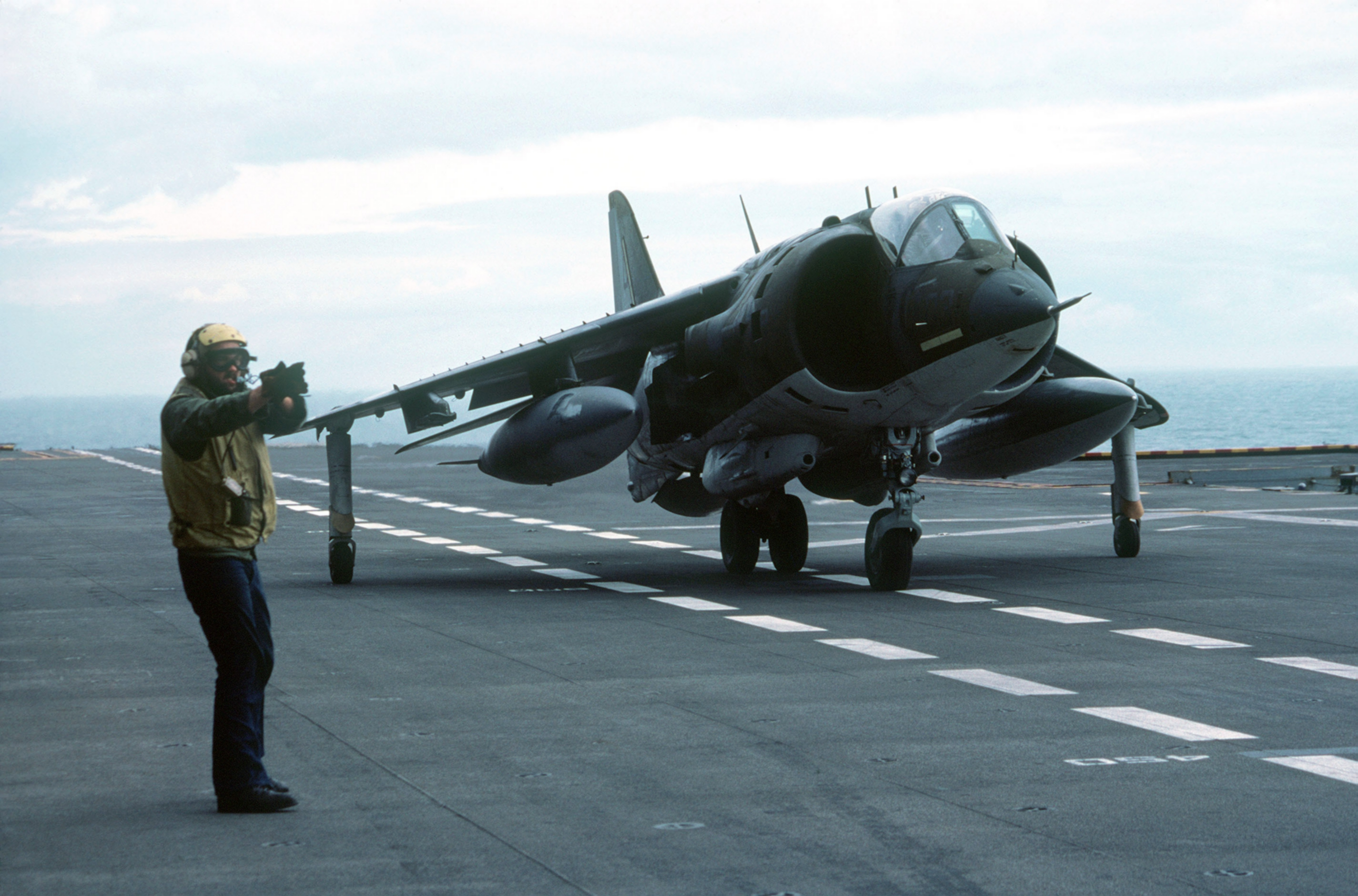 A flight deck crewman signals to the pilot of a U.S. Marine Corps Hawker Siddeley AV-8A Harrier of Marine Attack Squadron VMA-231 for takeoff from the amphibious assault ship USS Nassau (LHA-4).